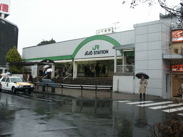 North exit of Jujo Station